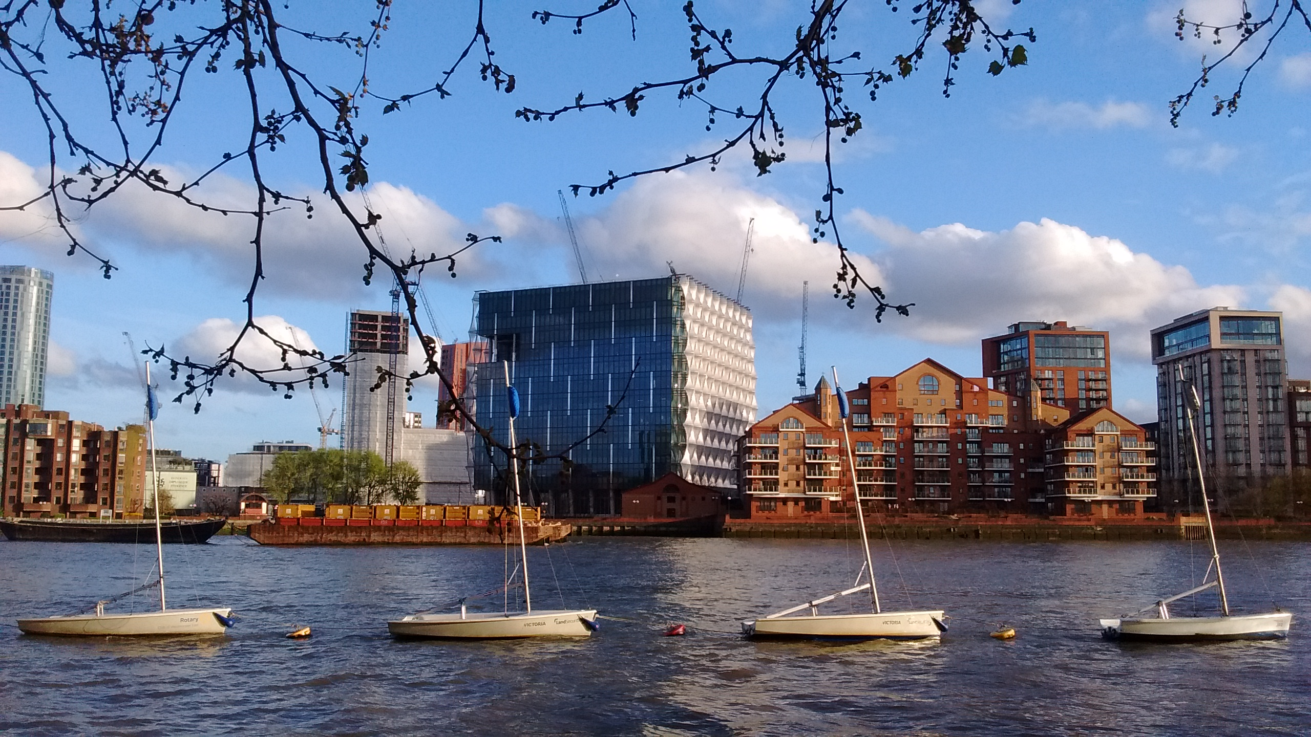 The new American Embassy in Battersea Nine Elms, with the river Thames in the foreground, as it nears completion of construction works